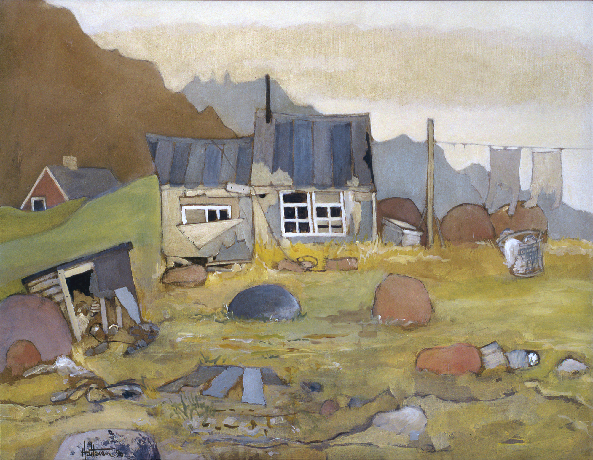 The settlement of Augpiladoq, Greenland. Painting by German-Danish Artist Holger Hattesen (Flensburg 1937-1993).